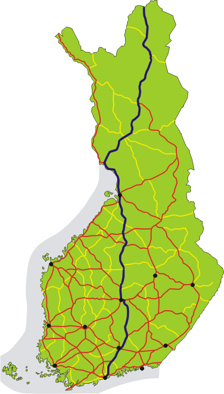 Map of the main road 4 in Finland, shown in dark blue. The other 1st class main roads (numbers 1–29) are red, 2nd class main roads (numbers 40–98) yellow. Black dots show the 12 biggest urban areas.